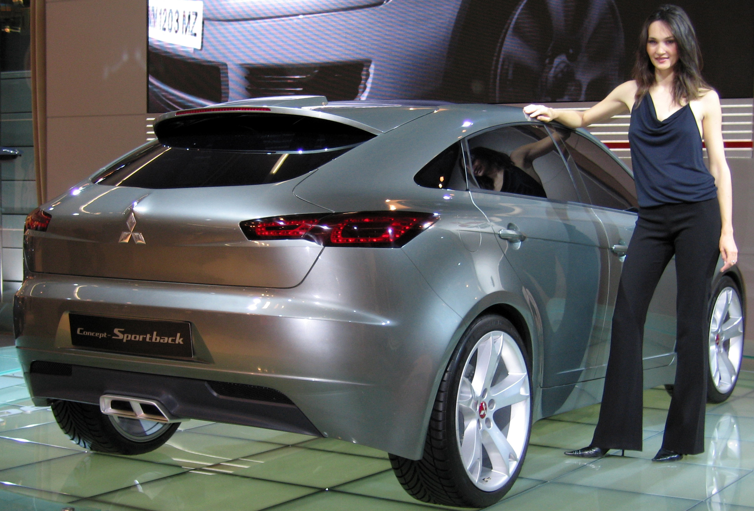 Mitsubishi Concept-Sportback Concept of the Lancer Evo IX at the IAA 2005